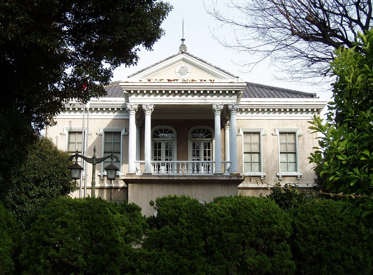 Saitama City Urawa Museum.Located in Midori-ku, Saitama City, Saitama Pref., Japan.